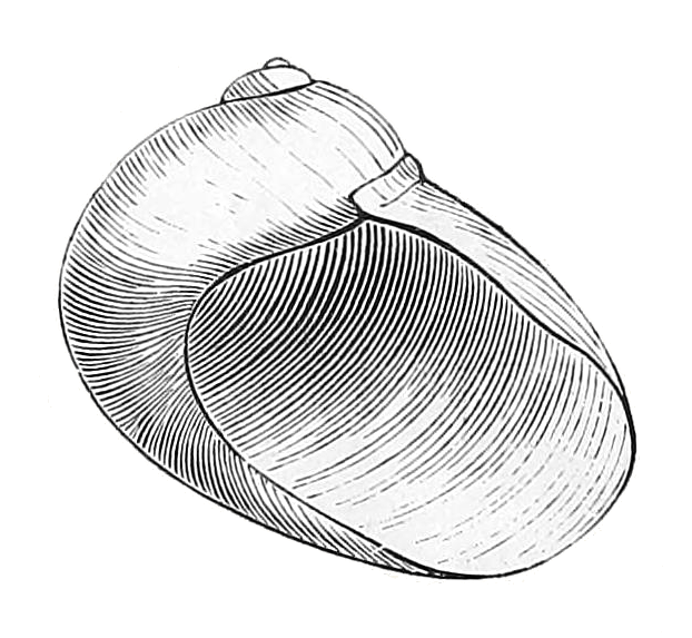 Drawing of an apertural view of a shell of Coriocella nigra.